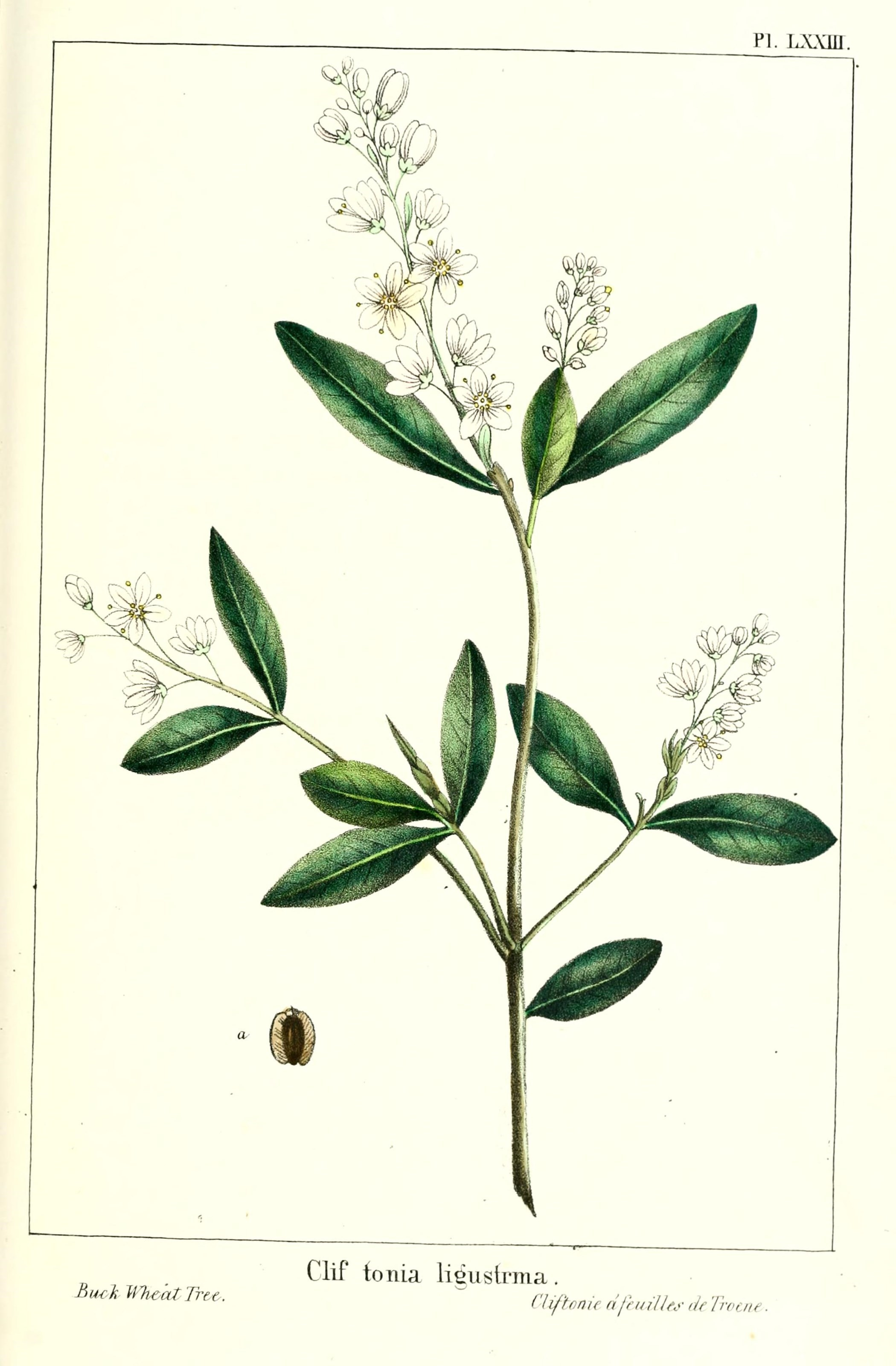 PI. ijcair. Biu^ IfUveat Trtc. Clif tonia ligustrma . Cliff fin if n jfuilh^'- r/r Troc/if .